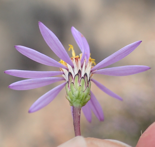 Felicia filifolia ssp. schaeferi, photographed by Peter Warren, on 14 May 2018, along the Baviaanskloof Scenic Route, in Willowmore County, Eastern Cape province of South Africa